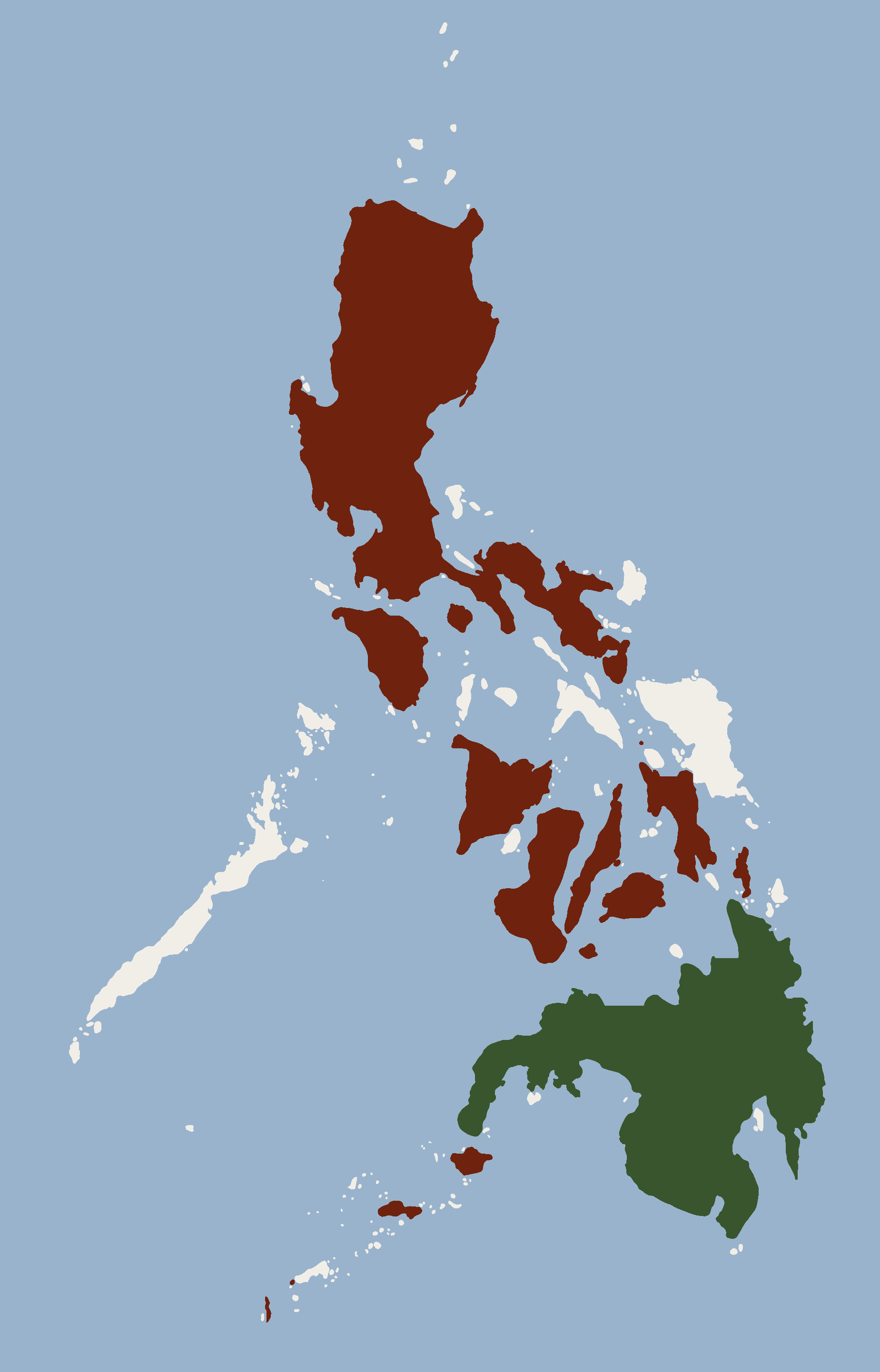 According to Heaney & Al., 1998